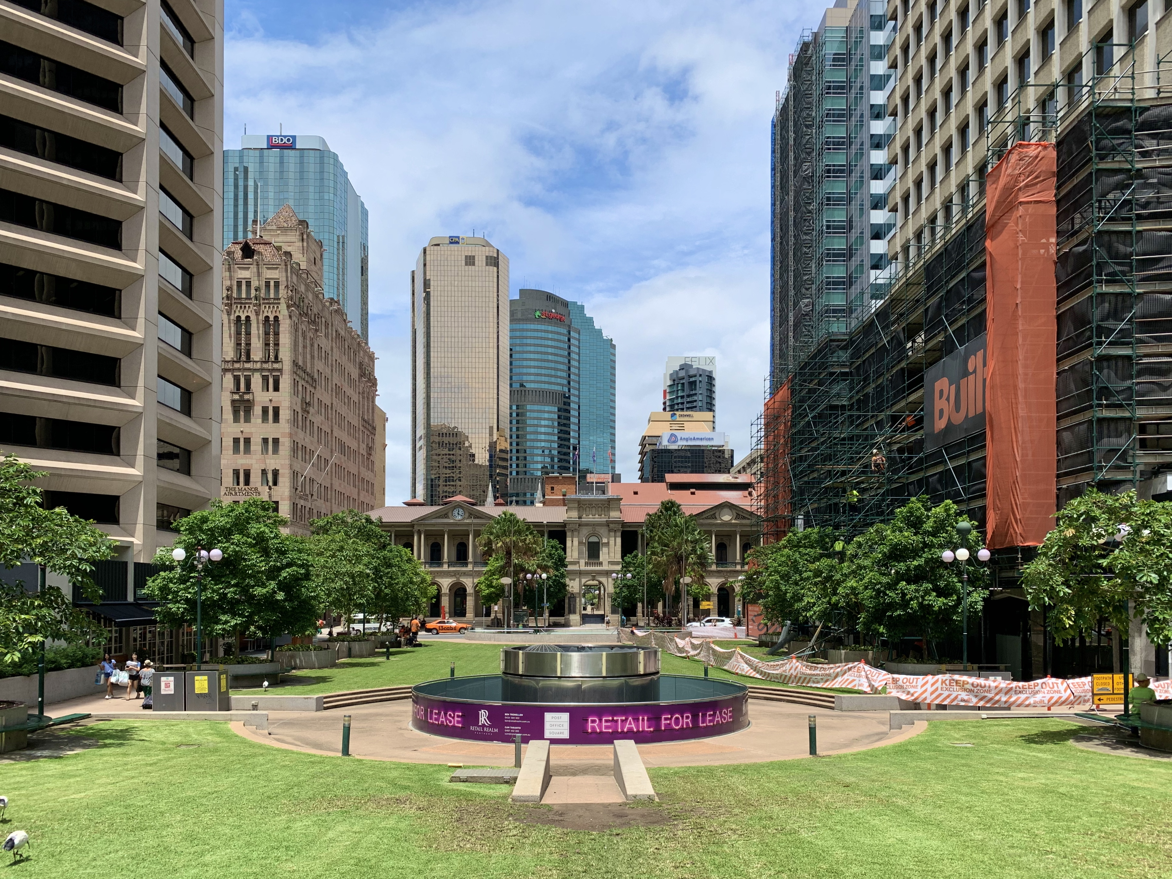 Post Office Square and General Post Office in the background, Brisbane, February 2020